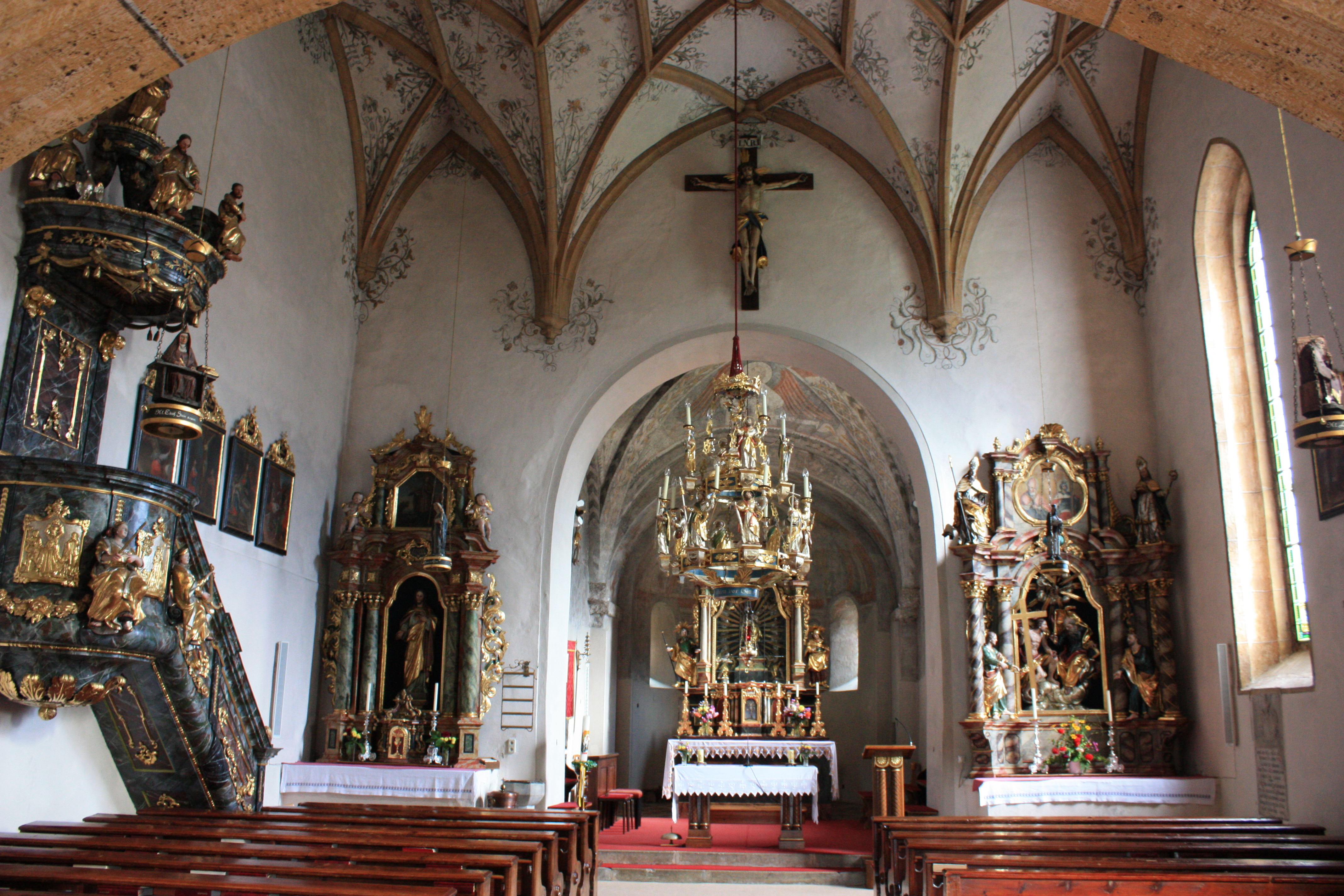 Parish church: Interior Locality: Berg im Drautal Community:Berg im Drautal